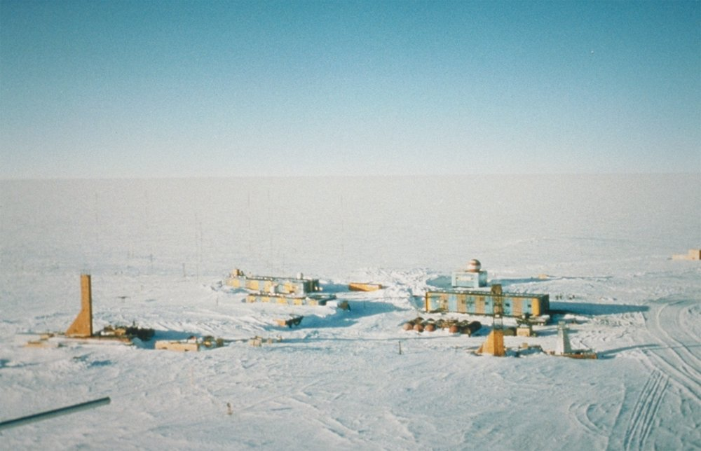 Wostok-Station (NOAA) Quelle: Lizenz: PD Beschreibung: Vostok Site The Vostok site was chosen by the Soviet Union for the deep coring possibilities it offered. French and, later, American scientists became interested in the Soviet research and began to participate in coring activities at the site. This panoramic photo of Vostok Station shows the layout of the camp. The striped building on the left is the power station while the striped building on the right is where researchers sleep and take meals. The building in the background with the red- and white-striped ball on top is the meteorology building. Caves were dug into the ice sheet for storage, keeping cores at an ideal -55 degrees C year round. Photo Credits: Todd Sowers LDEO, Columbia University, Palisades, New York.